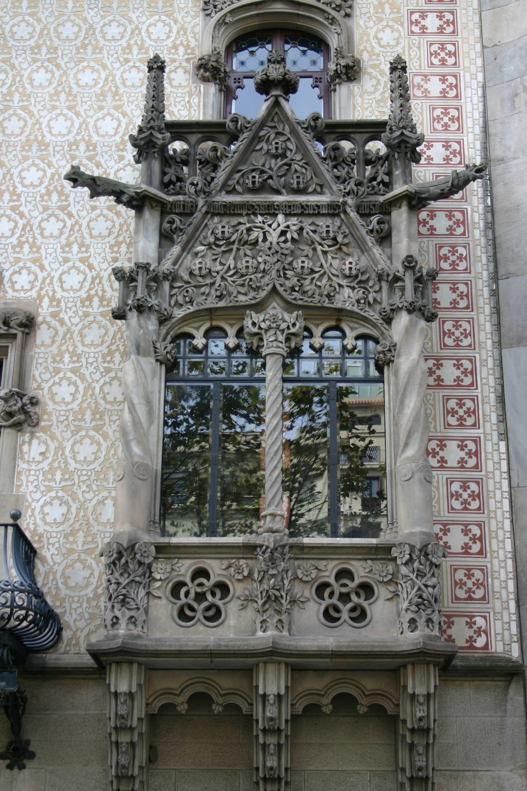 Casa Amatller Balcó Author: User:Yearofthedragon Note: Architect:Josep Puig i Cadafalch Sculptor:Eusebi Arnau City:Barcelona